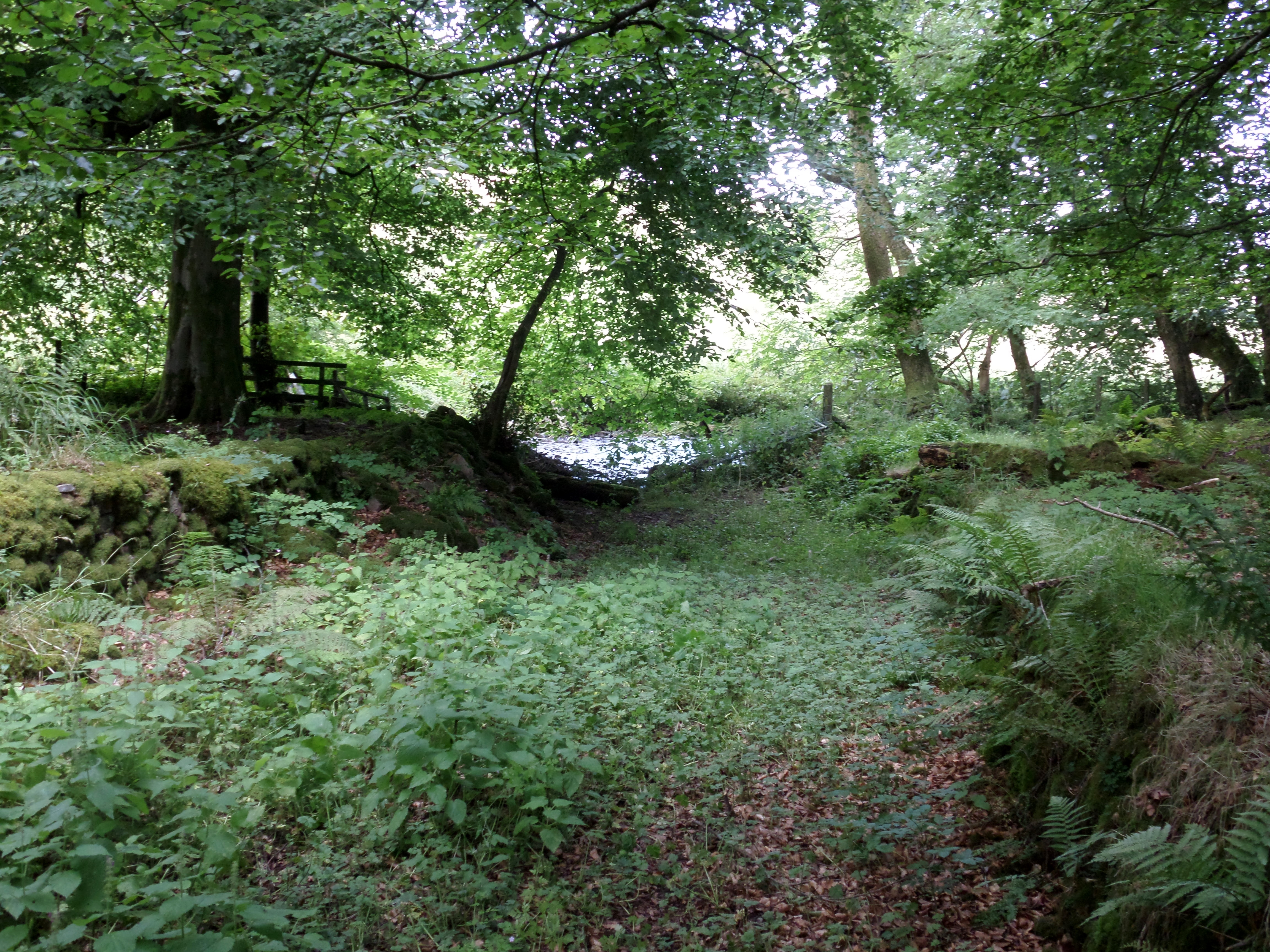 Sandy Ford Lane and ford, Laigh Borland, Dunlop, Ayrshire, Scotland